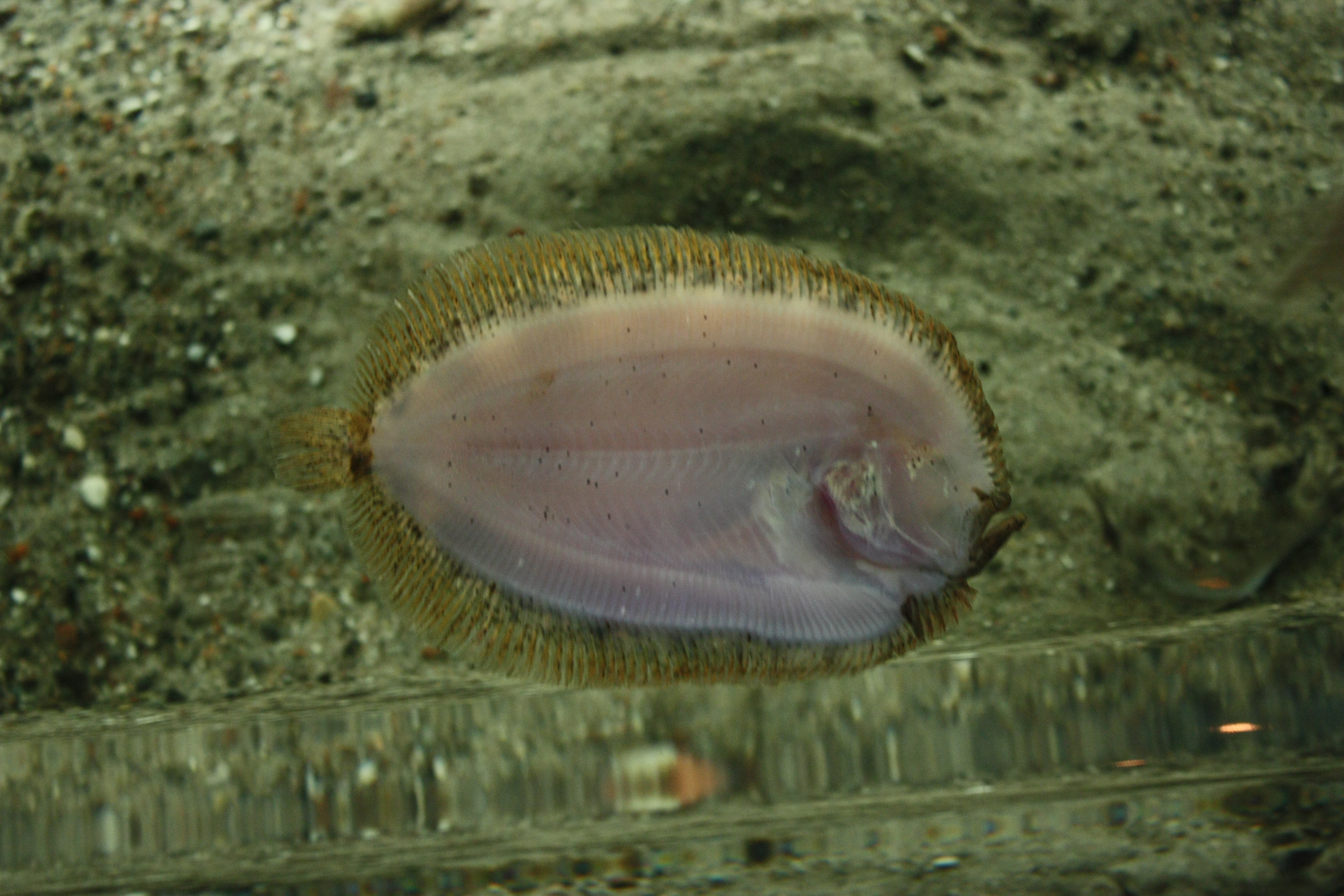 Zeugopterus punctatus from ventral